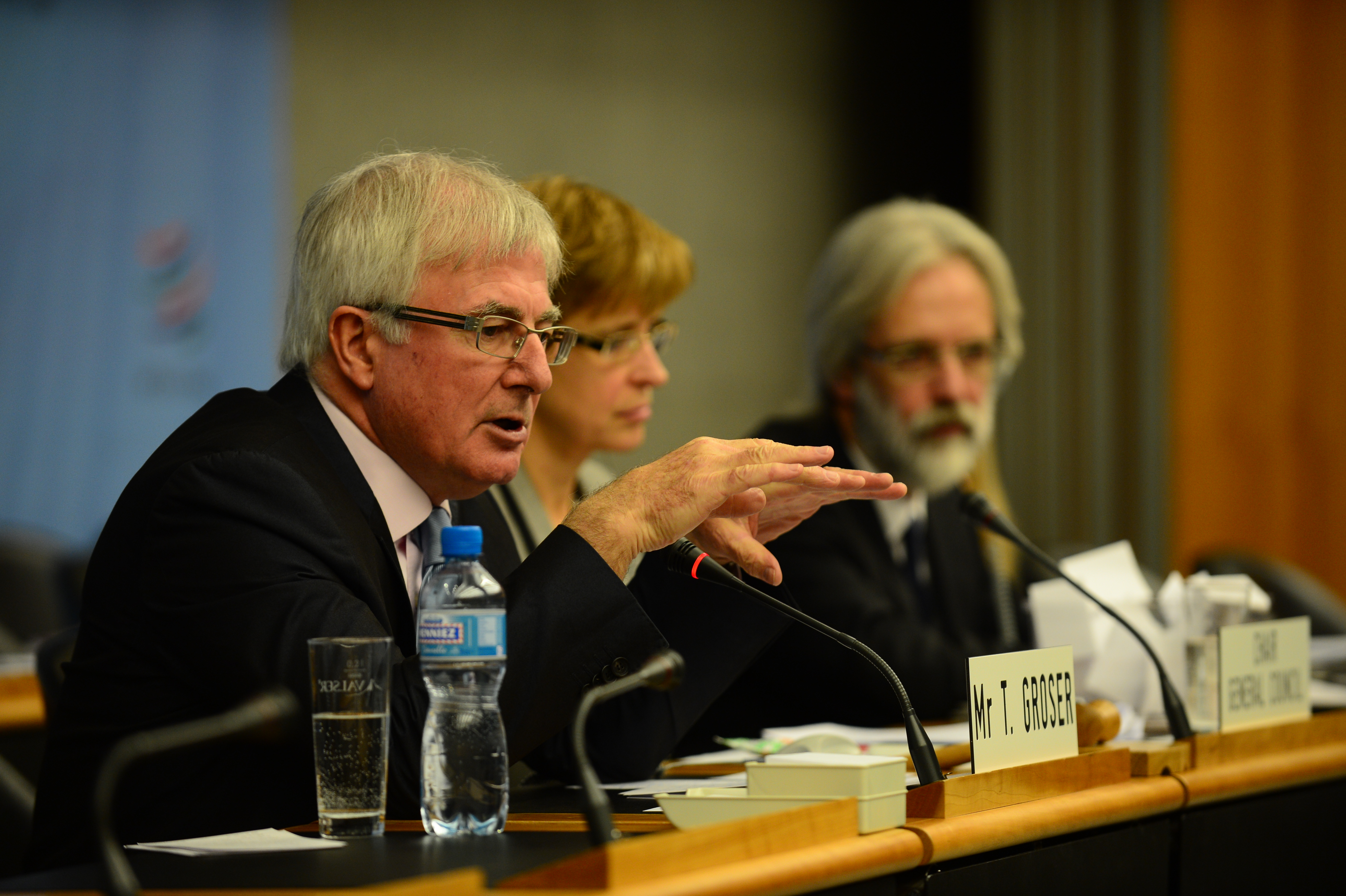 WTO Director-General Selection Process - Mr Tim Groser (New Zealand) - 30 January 2013. These photos may be reproduced provided attribution is given to the WTO and the WTO is informed. Photos: © WTO/Studio Casagrande